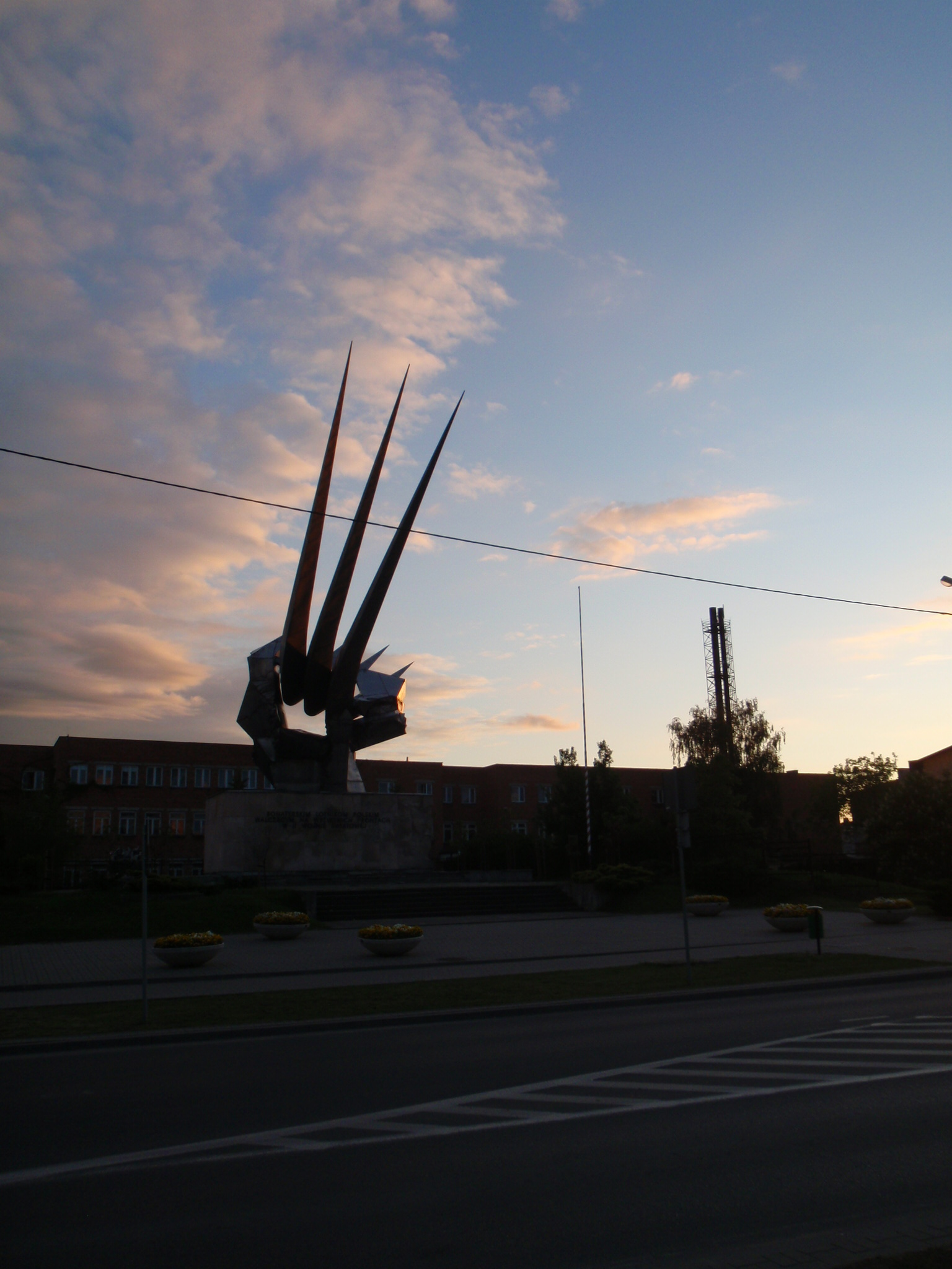 Airmen Monument in Warka